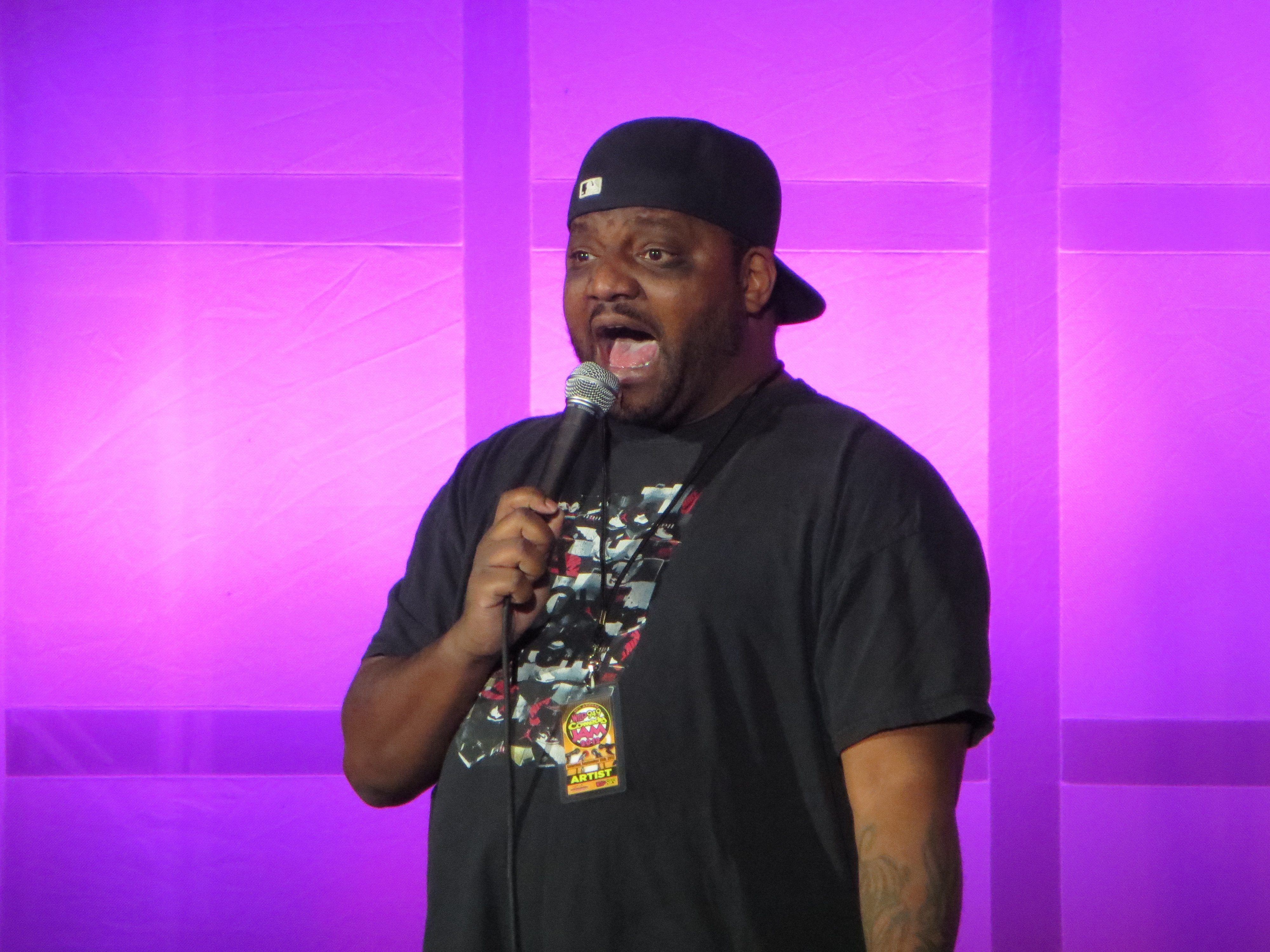 Aries Spears live in concert at Wild 94.9 Shoreline Comedy Jam 2012